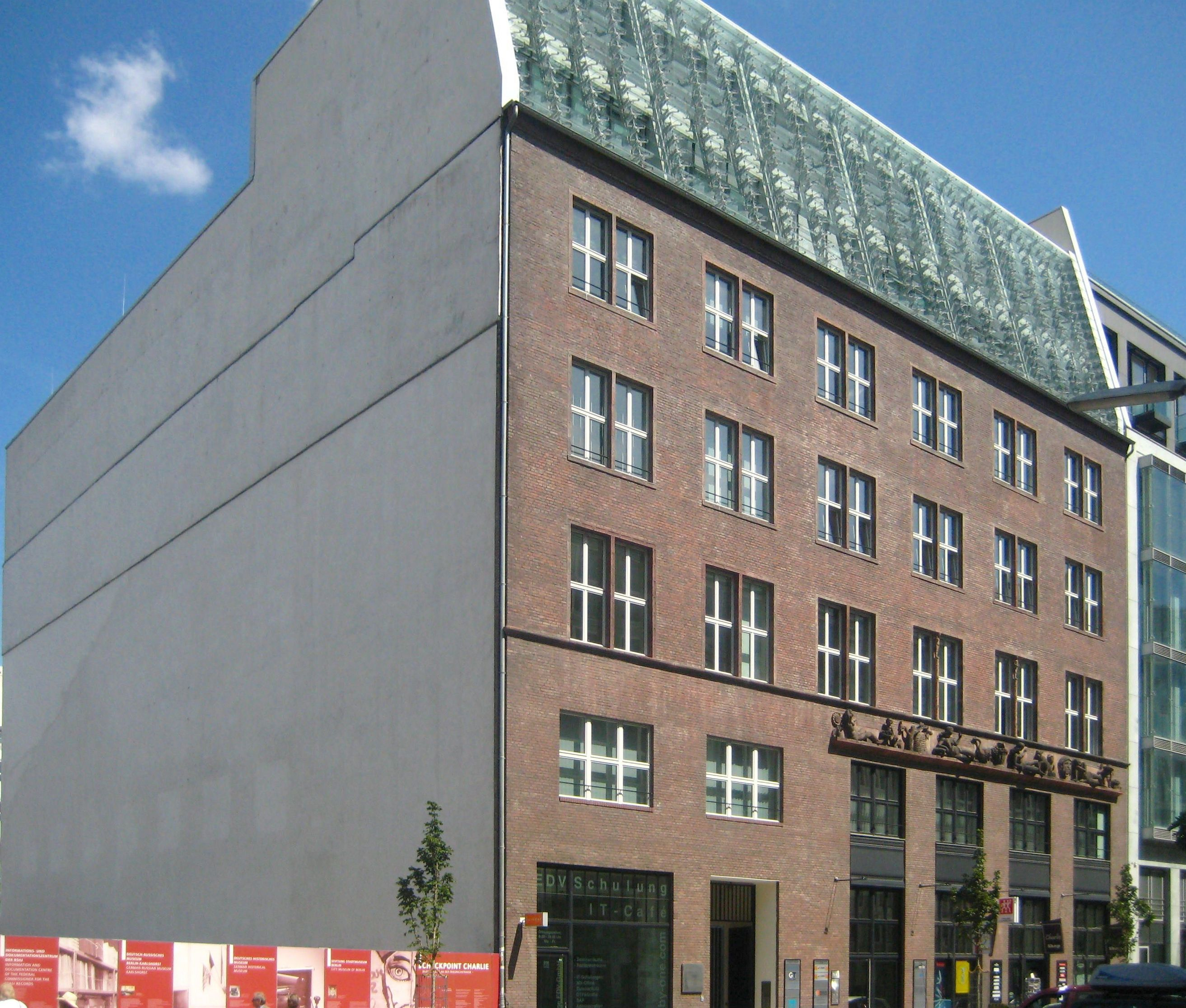 The Alfandary House at Zimmerstraße No. 79-80 in Berlin-Mitte. The commercial building was constructed from 1913 to 1914 to a design by the architect John Martens. The terracotta frieze at the facade is by sculptor Hans Schmidt. The building is part of the protected historic buildings area Schützenstraße.